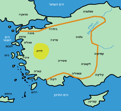 Area of Lydia and Lydian Empire Image:Lydia original area of lydia.jpg